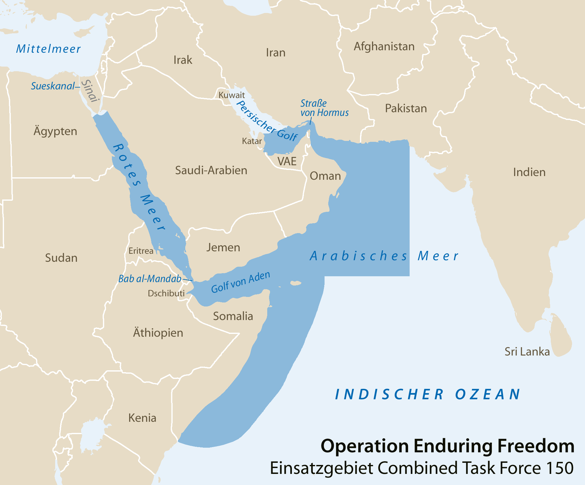 Map of the operation area of the Combined Task Force 150